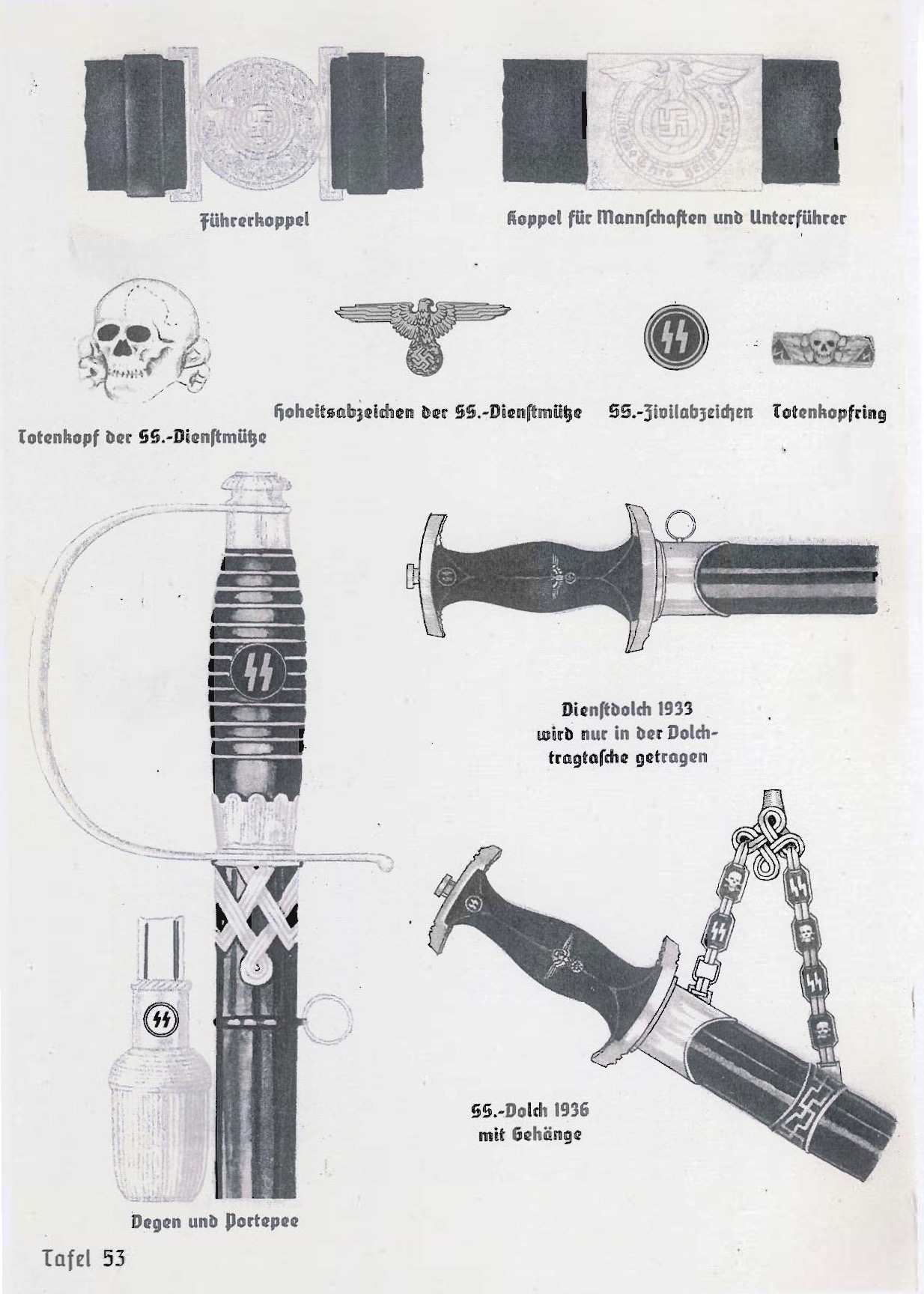 ORGANISATIONSBUCH DER NSDAP 1937: Tafel 53 Führerkoppel (officer's belt), Koppfel für Mannschaften und Unterführer (belt for privates and NCOs), Totenkopf der SS.-Dienstmütze (Death's head emblem for SS' service cap), Hoheitsabzeichen der SS.-Dienstmütze (NSDAP eagle cap insignia), SS.-Zivilabzeichen, Totenkopfring, Dienstdolch (dagger) 1933 wird nur in der Dolchtragtasche getragen, Degen und Portepee, SS.-Dolch 1936 mit GehängePlate showing belt buckles, |cap insignia, SS Honor Ring (SS-Ehrenring), daggers (SS-Ehrendolch), sword (Degen), etc. of the Schutzstaffel (SS), a major paramilitary organization under Adolf Hitler and the the Nationalsozialistische Deutsche Arbeiterpartei (NSDAP, National Socialist German Workers' Party) in Nazi Germany. Cropped image copied from low resolution jpg-files of the pages of "Organisationsbuch der NSDAP." by "Reichsorganisationsleiter" Robert Ley (1890 – 1945) for "Nationalsozialistische Deutsche Arbeiter-Partei, Reichsorganisationsamt." Published 1937. Publisher : Zentralverlag der NSDAP, Franz Eher Nachf., München. Language: German. Fraktur style letters. Legal disclaimer This image shows (or resembles) a symbol that was used by the National Socialist (NSDAP/Nazi) government of Germany or an organization closely associated to it, or another party which has been banned by the Federal Constitutional Court of Germany. The use of insignia of organizations that have been banned in Germany (like the Nazi swastika or the arrow cross) are also illegal in Austria, Hungary, Poland, Czech Republic, France, Brazil, Israel, Ukraine, Russia and other countries, depending on context. In Germany, the applicable law is paragraph 86a of the criminal code (StGB), in Poland – Art. 256 of the criminal code (Dz.U. 1997 nr 88 poz. 553).